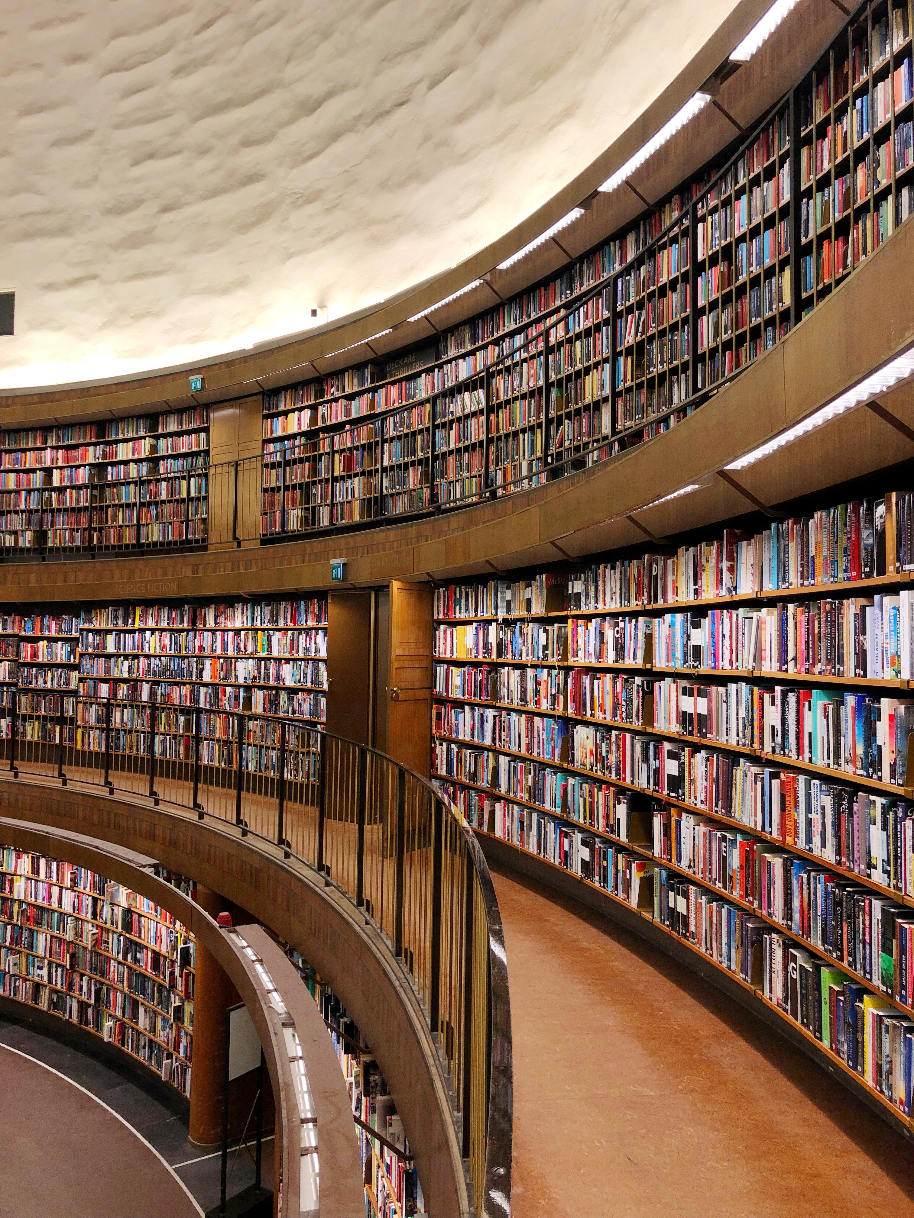 An image of the stacks of the Stockholm Public Library